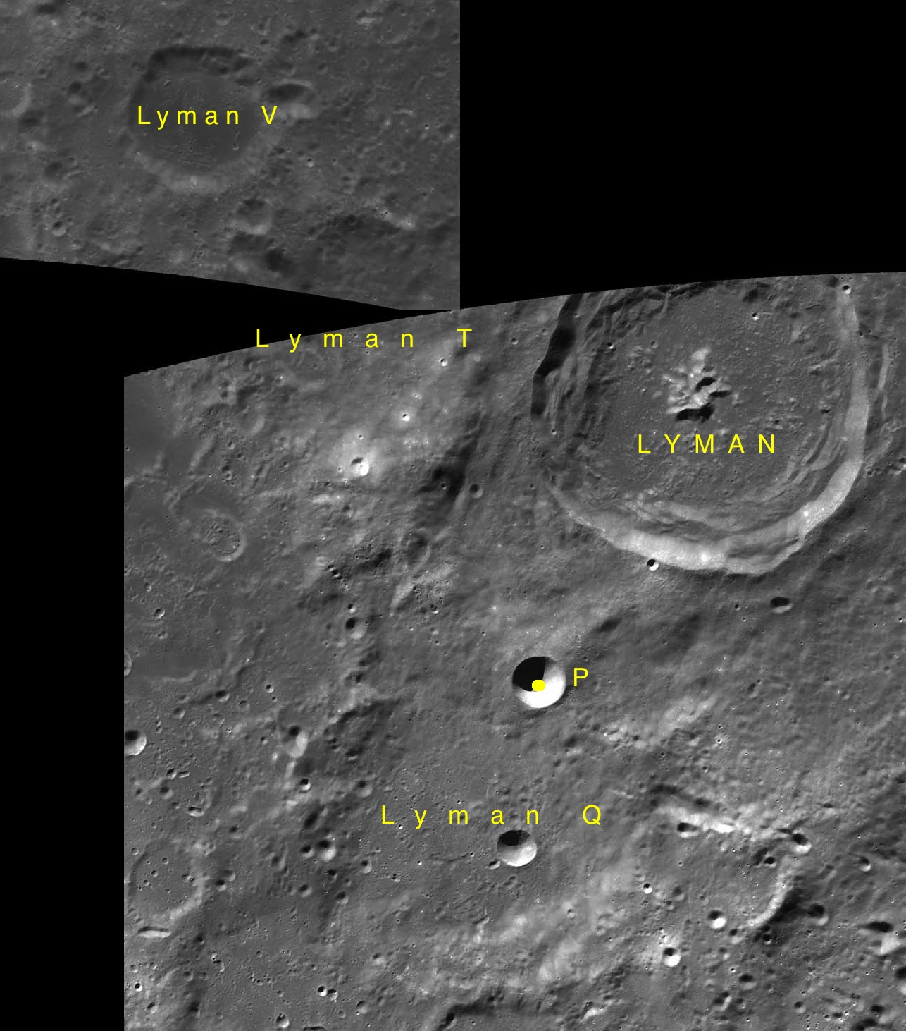 Parts of the charts LAC-131, LAC-141 used for the presentation